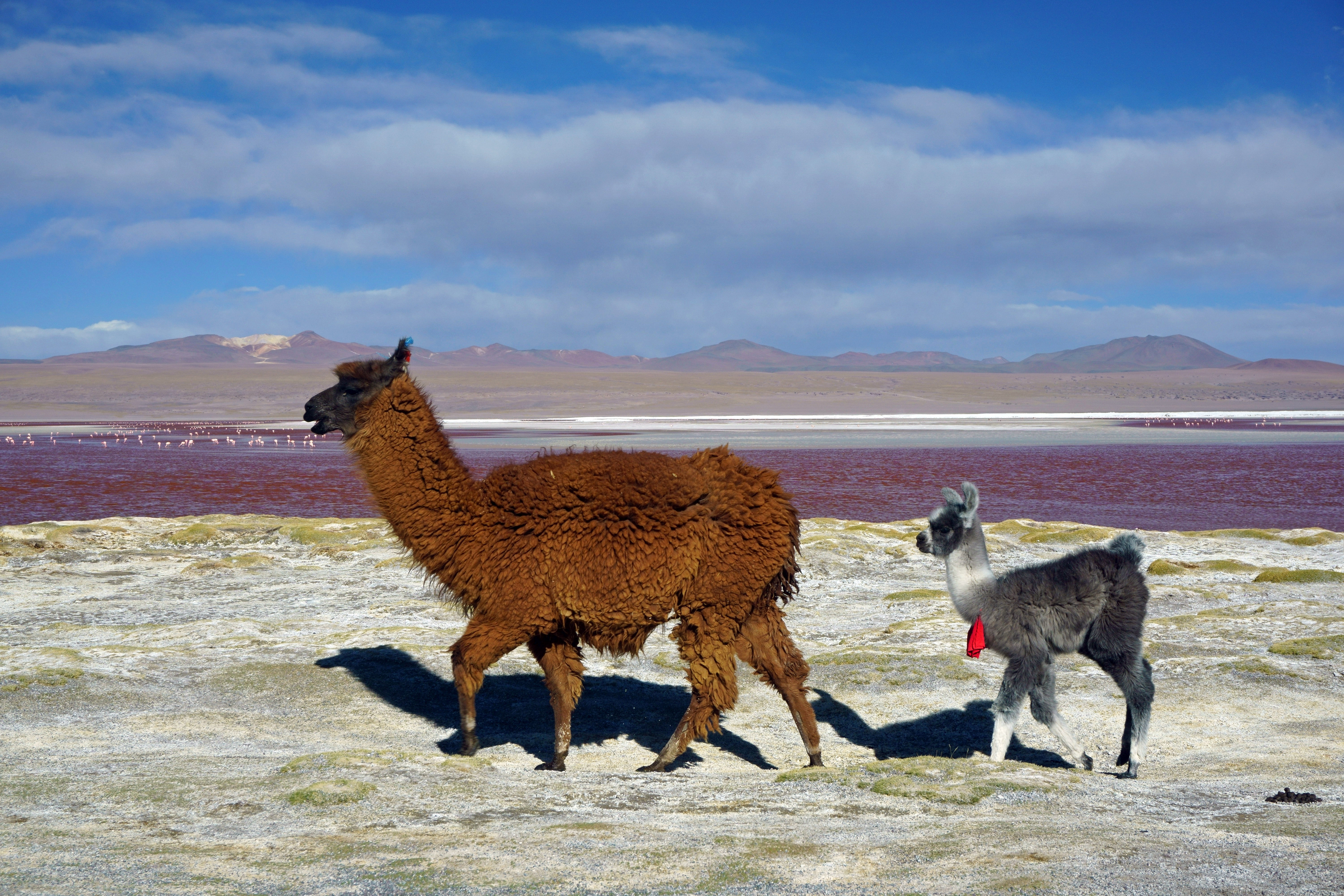 A female llama (Lama glama) with her cria at Laguna Colorada, Reserva Nacional de Fauna Andina Eduardo Avaroa, Bolivia.